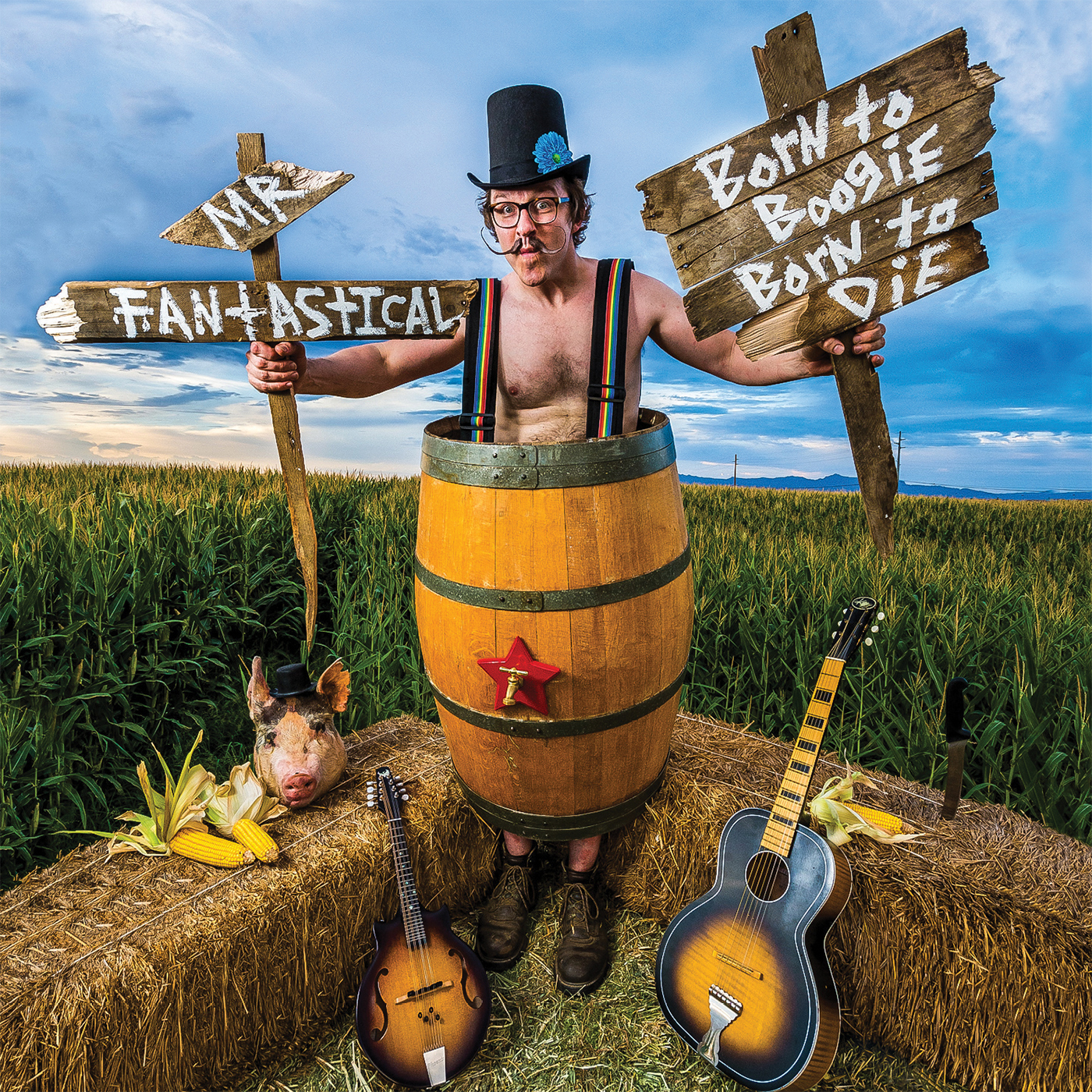 Album cover for Mr. Fantastical's 3rd LP, Born to Boogie, Born to Die.